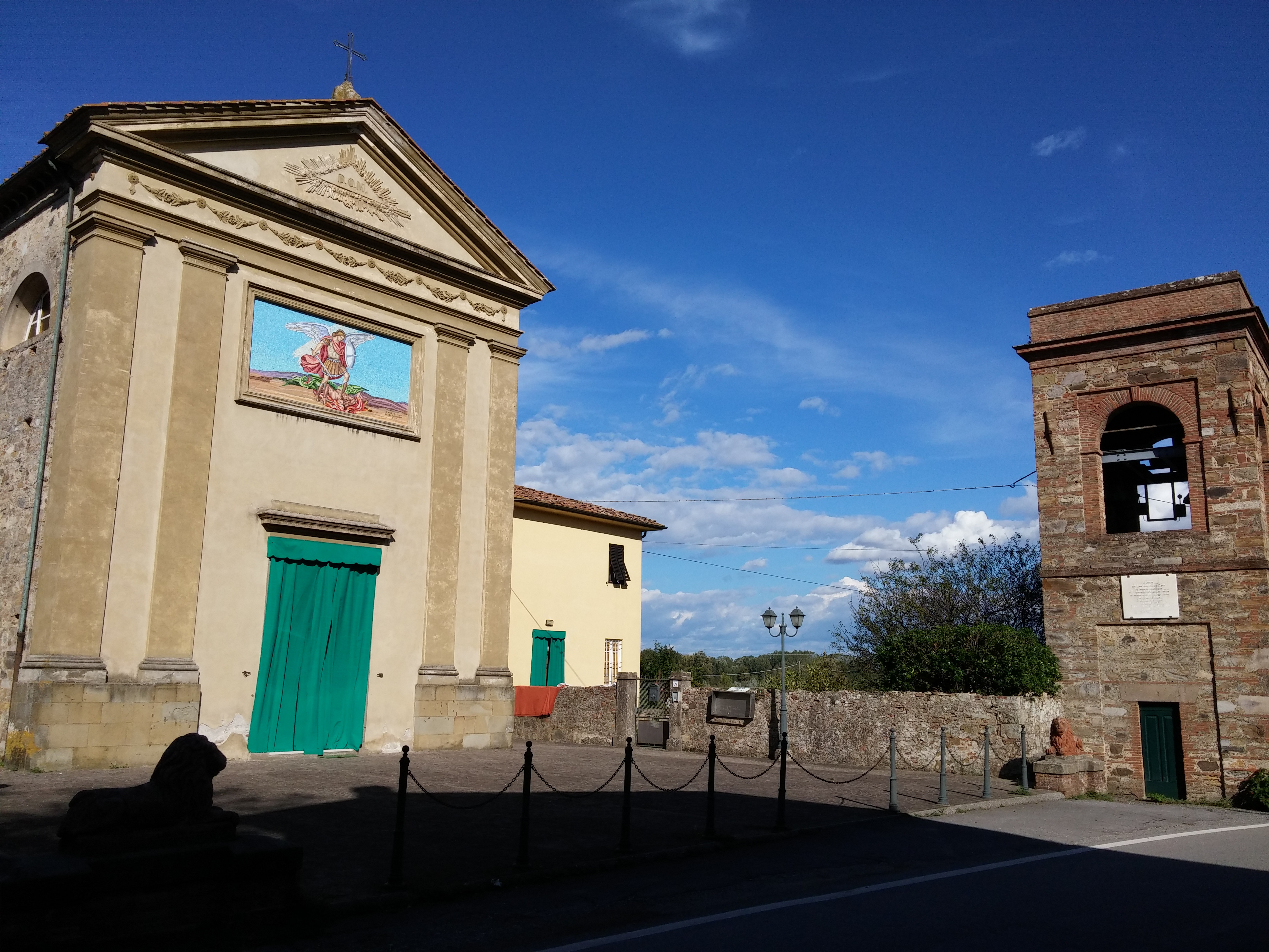 Church Square of Colognora di Cómpito - Capannori - Lucca - Italy